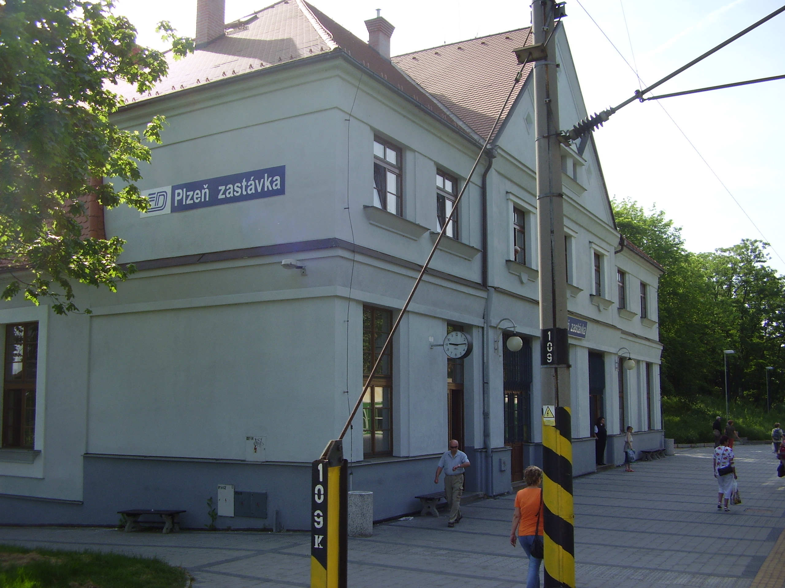 Train station Plzeň-zastávka